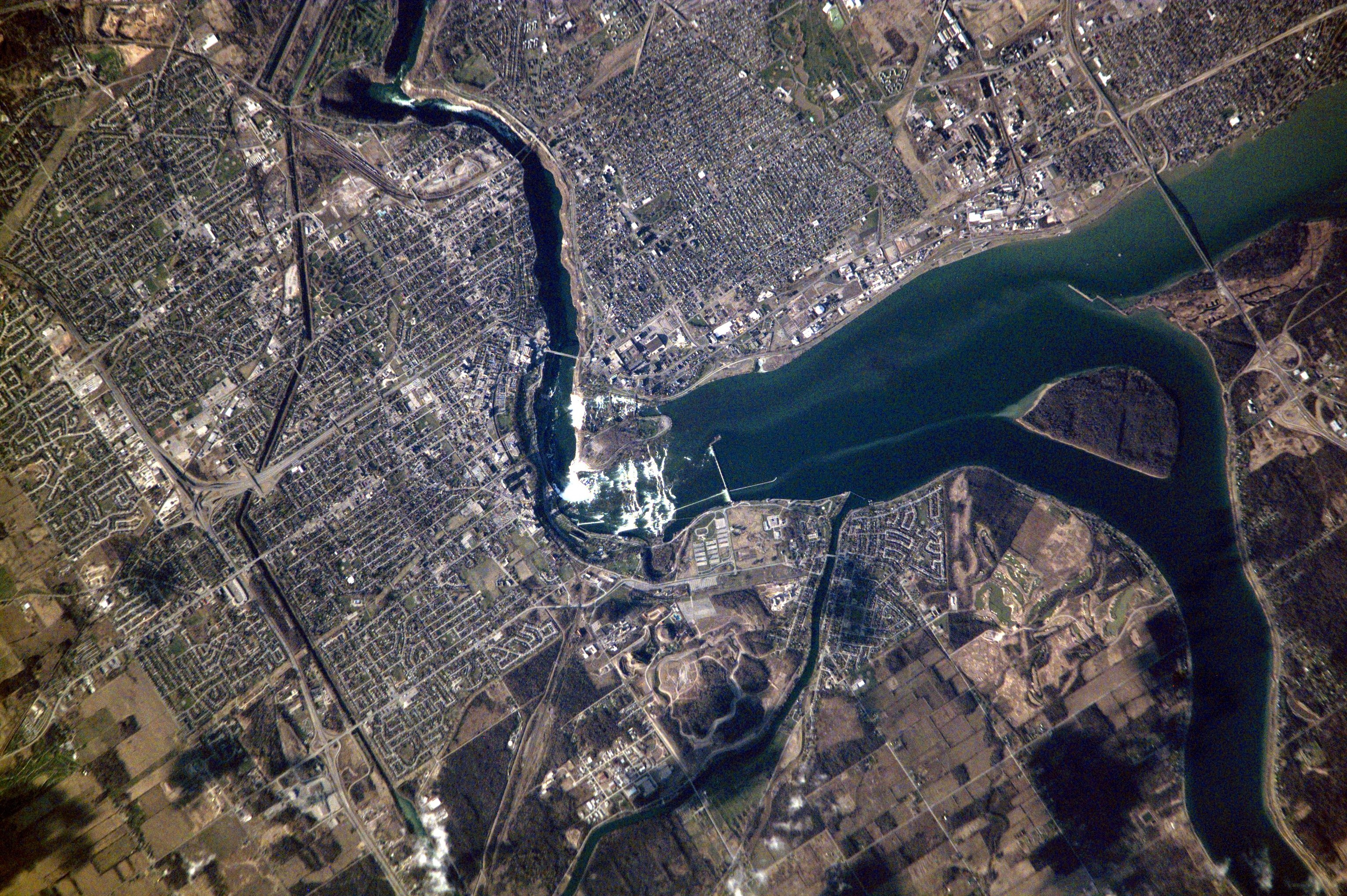 Mark Twain once said of Niagara Falls: "Although it was wonderful to see all that water tumbling down, it would be even more wonderful to see all that water tumbling up." Viewing the tumbling waters of the Niagara River from the microgravity environment of the International Space Station, astronauts recently acquired this image. They were at an orbit of 207 nautical miles (383 km) above the Falls, and used a digital camera with an 800 mm lens. In taking these kinds of detailed images, Space Station crewmembers have compensated for the relative motion of the Earth, thus achieving spatial resolutions of less than 6 m and surpassing the previous records for spatial resolution from human spaceflight. Details of the city of Niagara Falls are easy to see; for spatial reference, the American falls is 328 m wide (1075 ft), and the Horseshoe Falls is 675 m wide (2200 ft). The Niagara River forms the U.S.-Canadian Border and allows Lake Erie to drain northwest into Lake Ontario. Lake Ontario is about 100 m lower than Lake Erie; the Falls and the rapids account for most of the elevation difference. The energy derived from water falling over the falls, with average total flows of 750,000 U.S. gallons (2.8 million liters) per second, fuel multiple power plants on the river. Power Plants downstream from the plant generate 4.4 million kilowatts of power for both Ontario and New York.